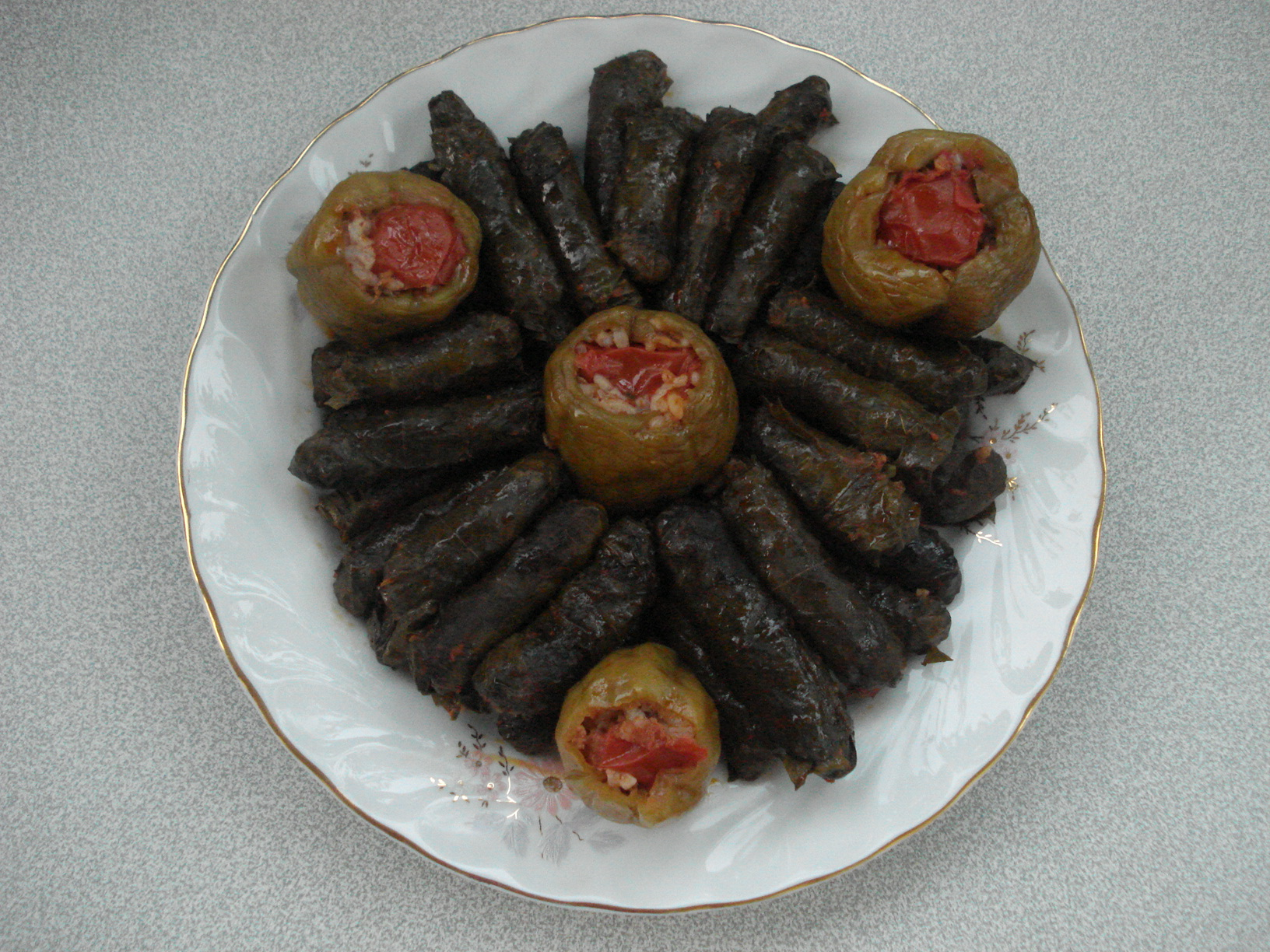 Sarma and dolma from Turkish cuisine.